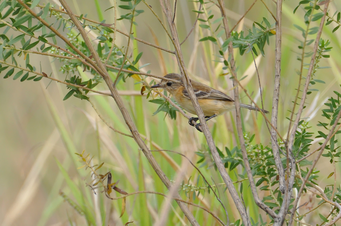 Bearded Tachuri (Polystictus pectoralis pectoralis) female photographed in the Reserva Natural Santa María, Argentina, in March 2011.